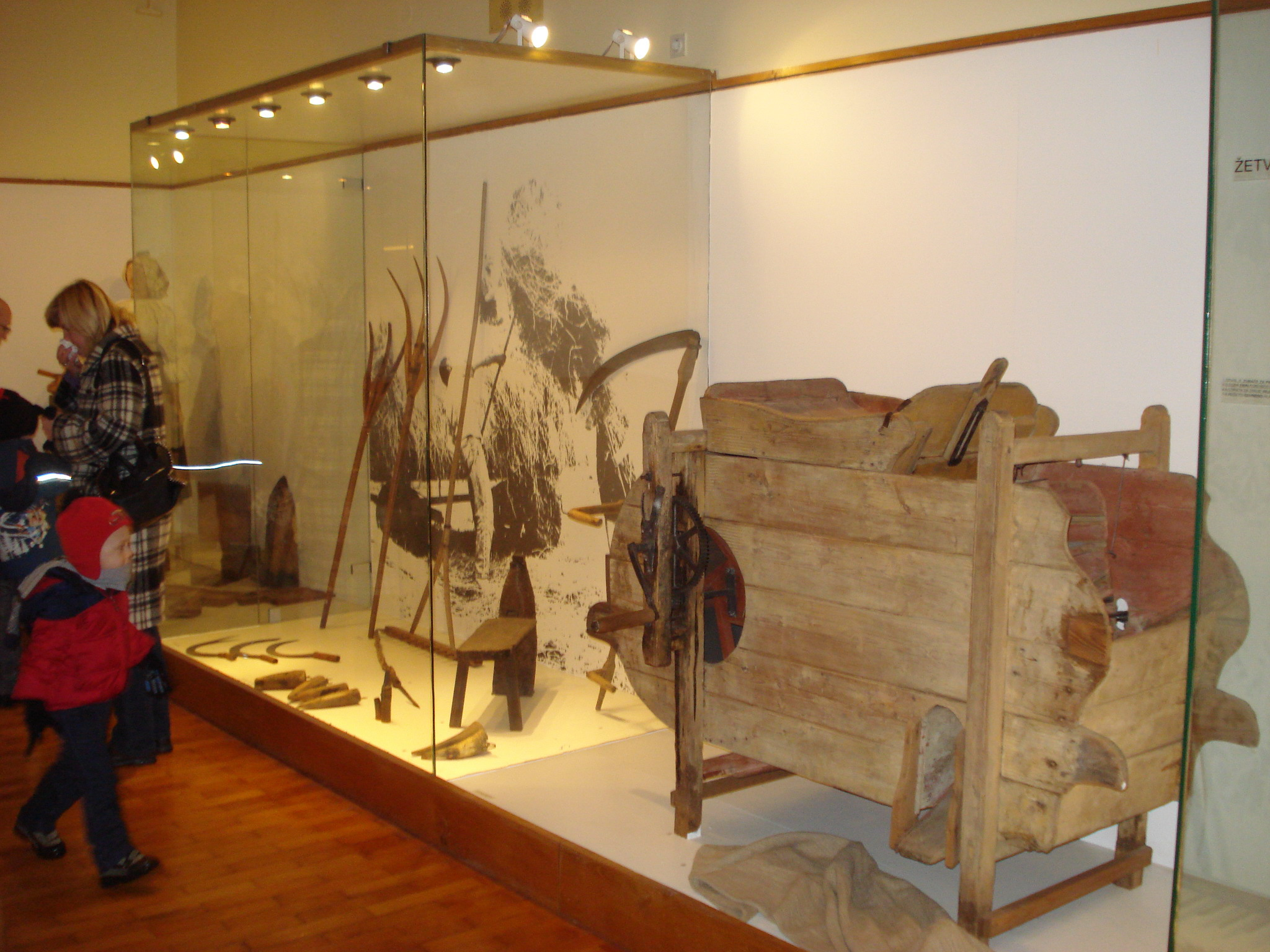 Night of museums 2014. in Čakovec (Croatia) - ethnographic showcase containing agricultural appliances